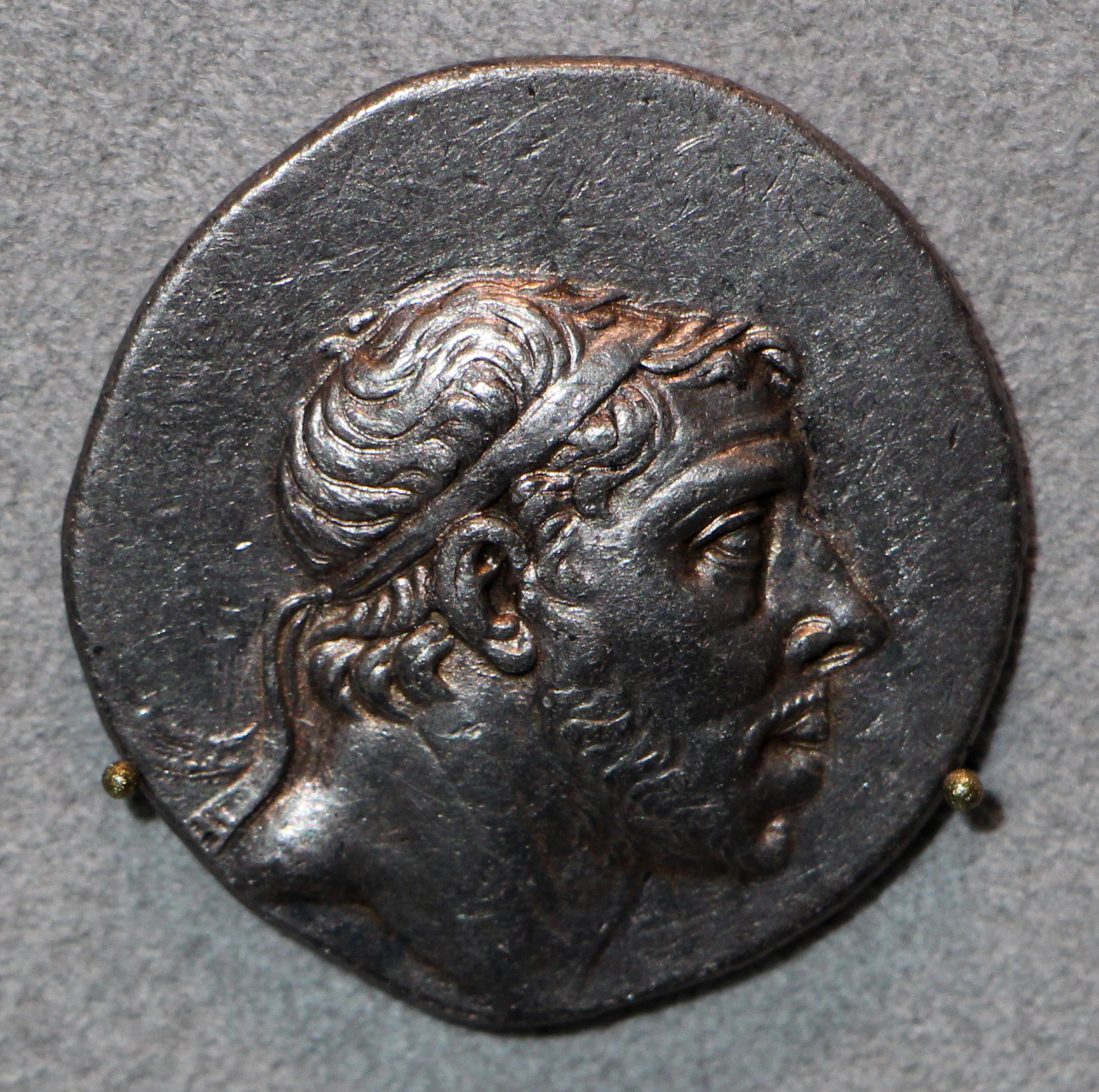 Ancient Greek coins in the Altes Museum Berlin